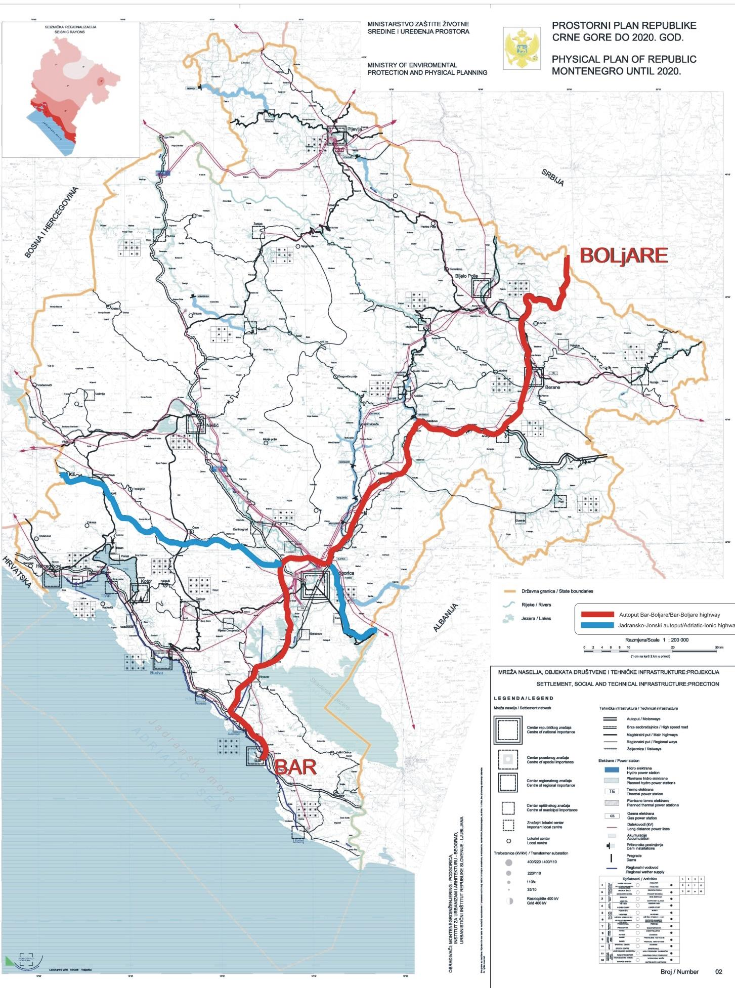 Excerpt from Spatial Plan of Montenegro for 2020.